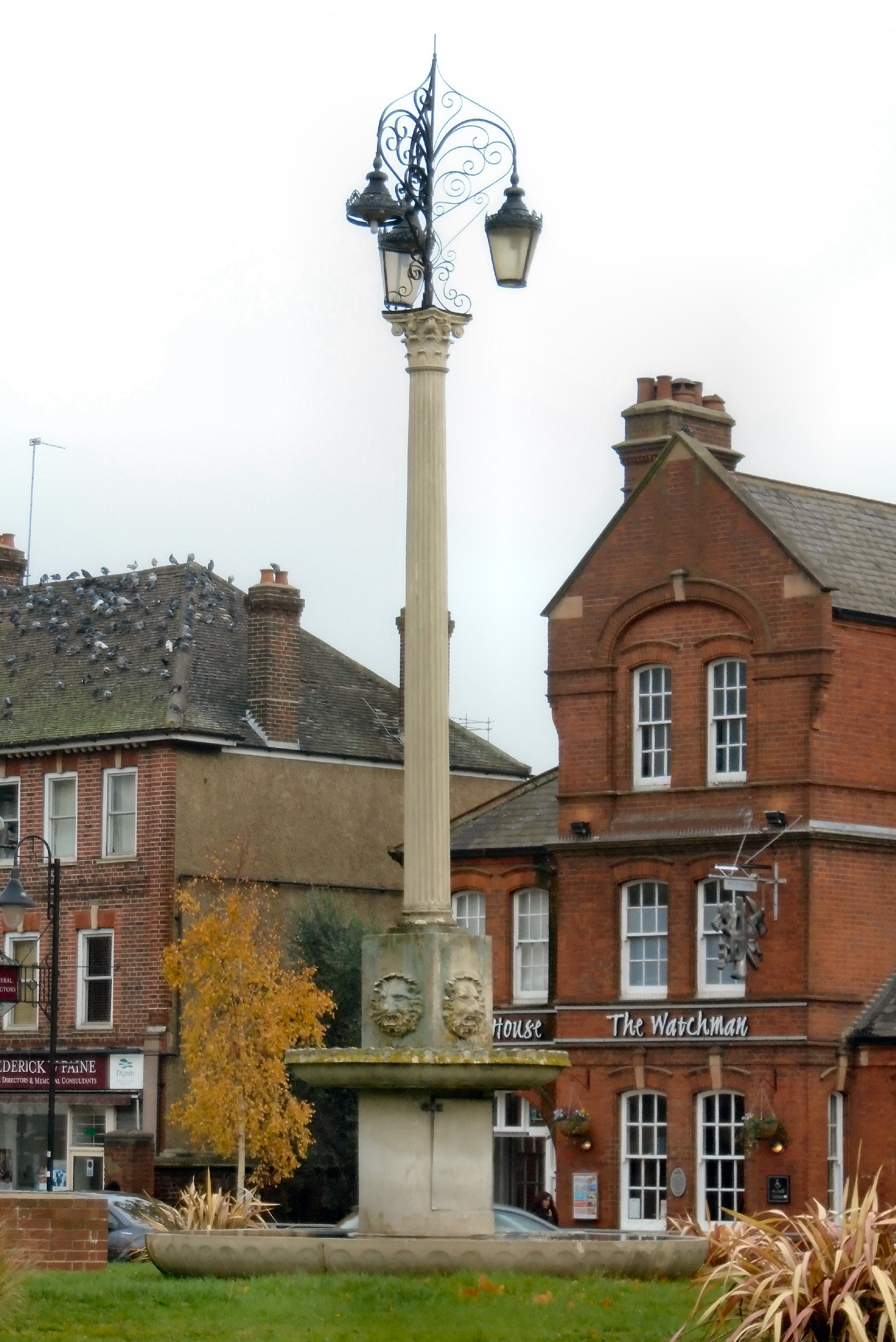 New Malden, The Fountain Roundabout and Watchman pub